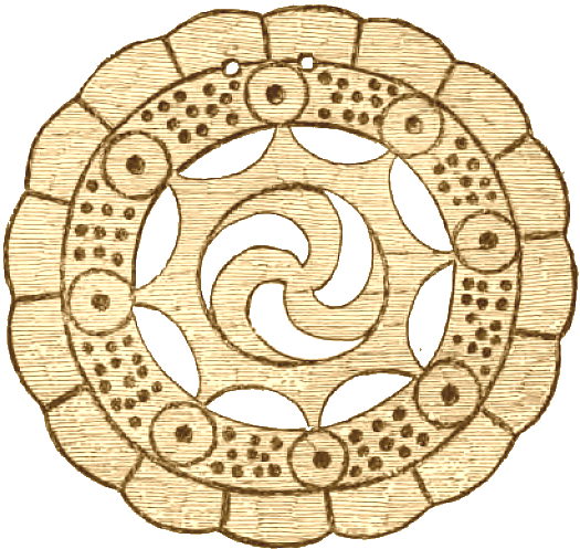 A drawing of a Mississippian culture Nashville I style shell gorget with a triskele design found by William Myer at the Castalian Springs Mound Site in Sumner County, Tennessee and now part of the collection of the National Museum of the American Indian.[1]